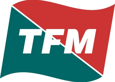 A small version of the Grupo Transportación Ferroviaria Mexicana logo.